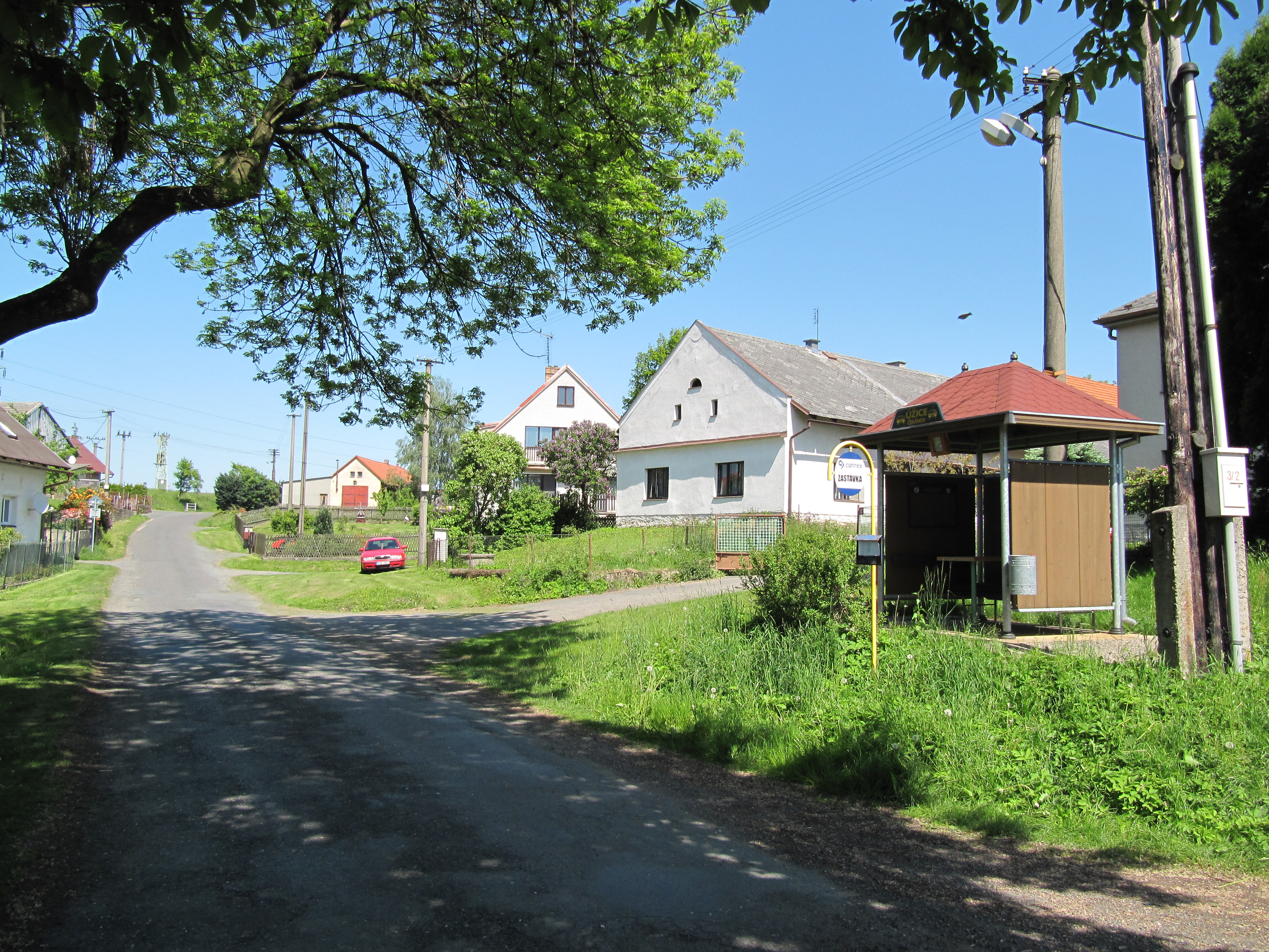 Úžice in Kutná Hora District, Czech Republic, part Čekanov. Bus stop.